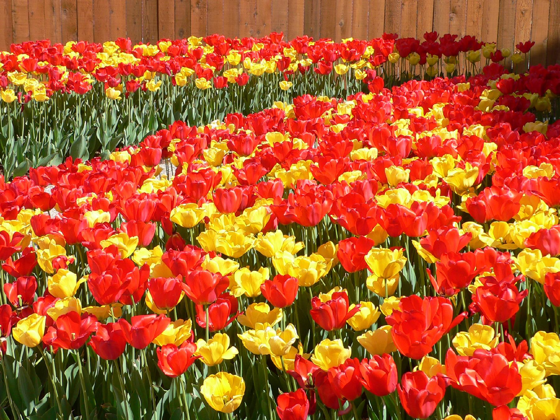 Tulips in front of the Anhueser Busch plant.